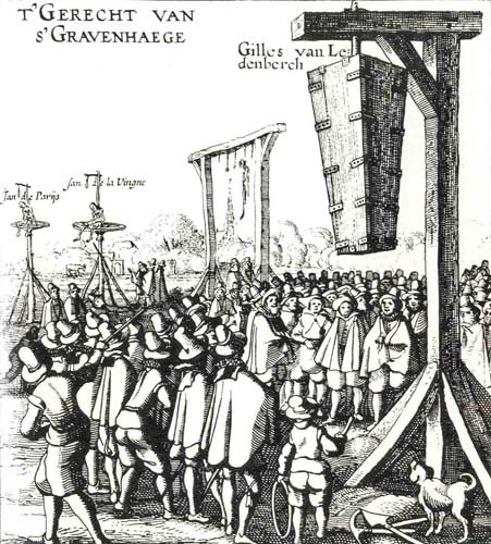 Gallowfield at the water Trekvliet, just outside The Hague, when in 1618 Gillis van Ledenbergh was procecuted for treasoning. He killed himself in prison, was conserved and put in a coffin, and he with the coffin was hung at the gallow.